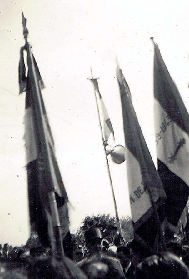 Charles de Gaulle after WWII in Saffré, near Nantes.